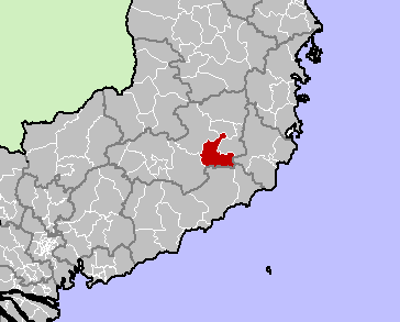 Duc Trong District, Lam Dong Province, Vietnam.